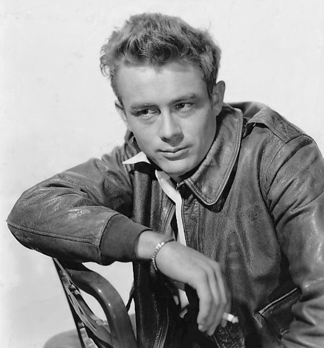 Photo of James Dean from an appearance on Schlitz Playhouse of Stars, episode "The Unlighted Road", May 6, 1955.